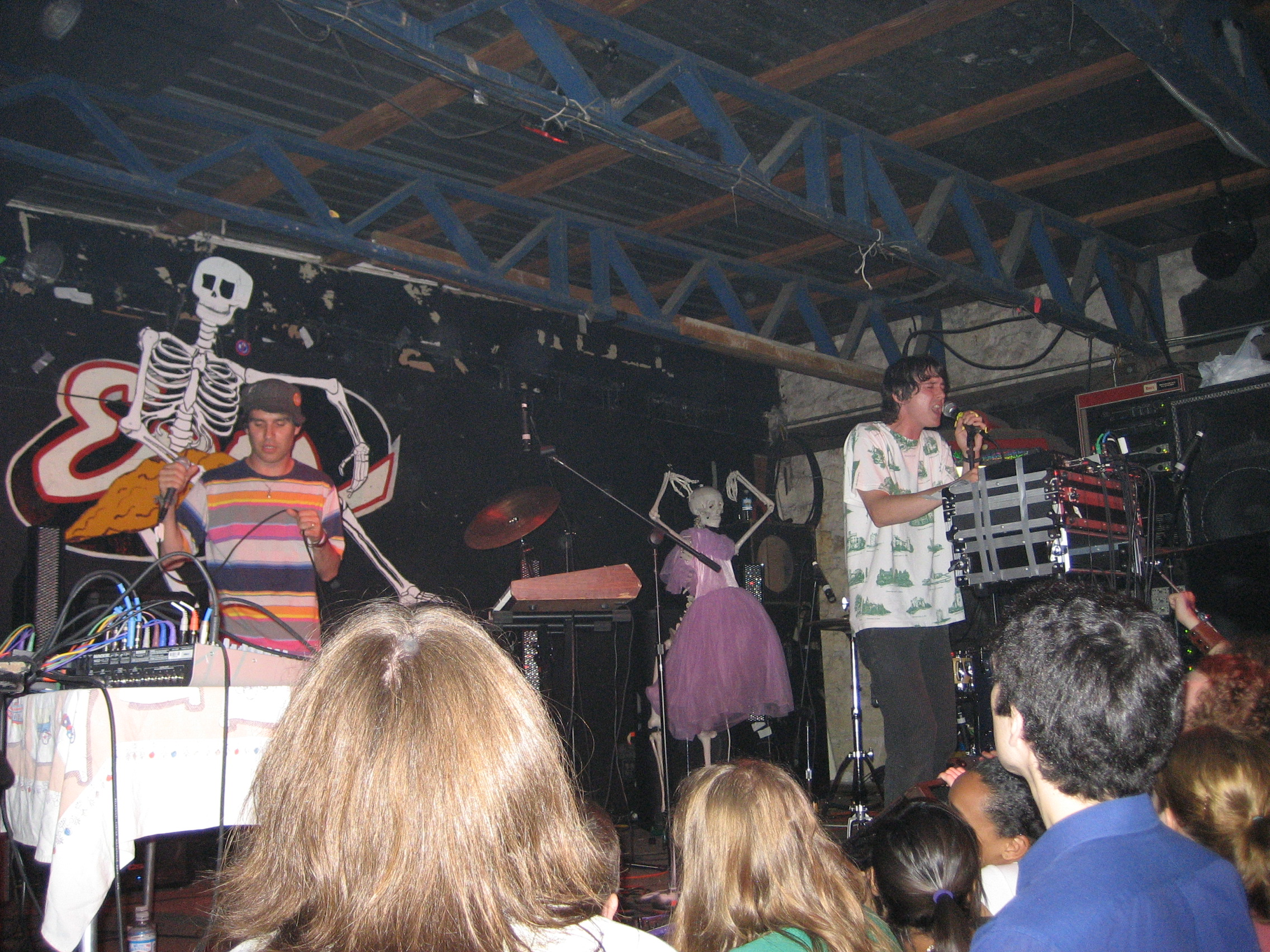 animal collective @ emo's